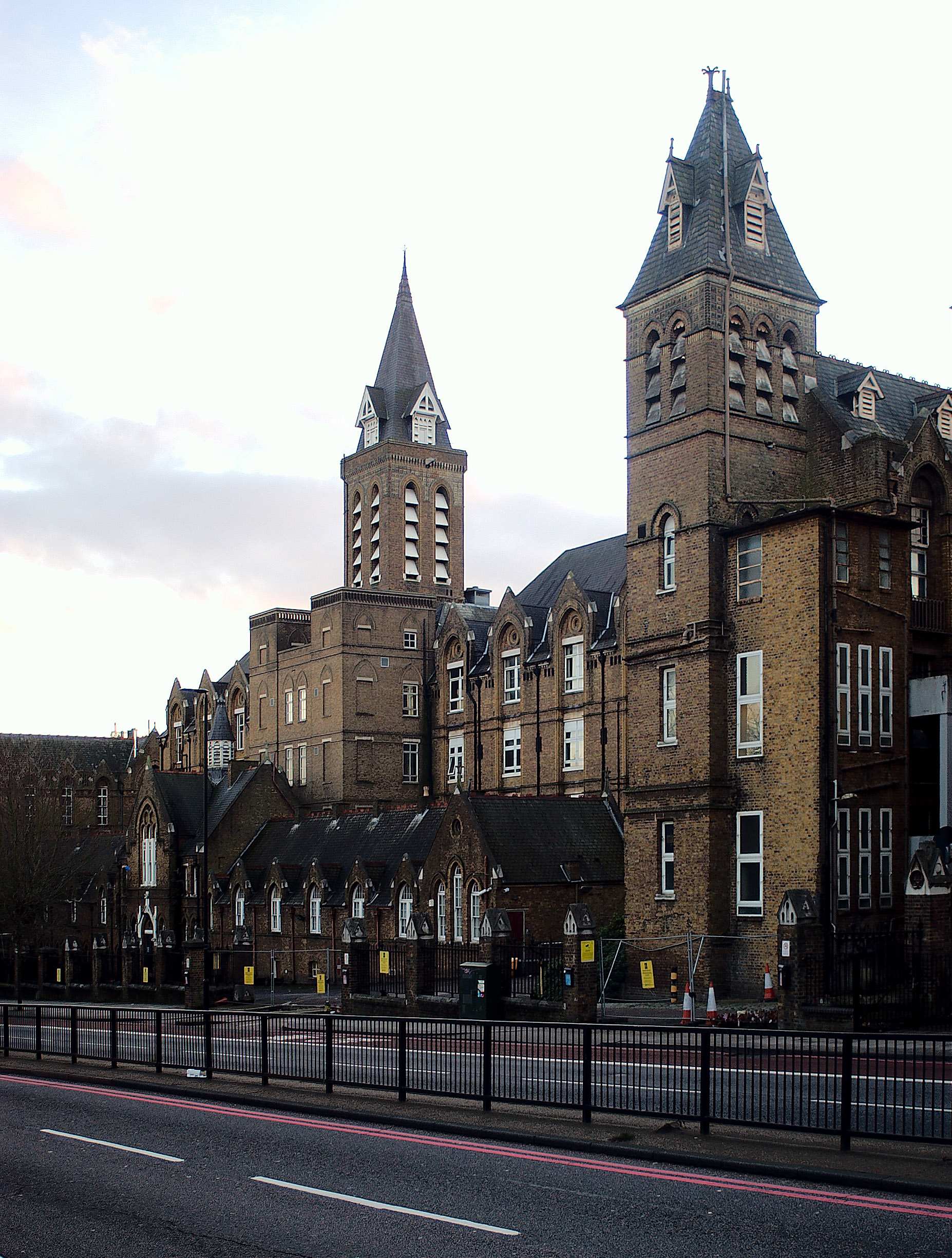 Twin towers, Archway Road